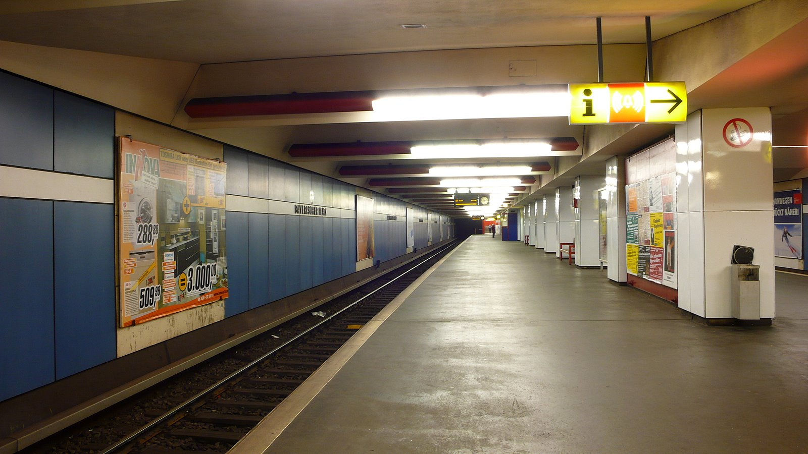 Subway Station Bayer. Platz